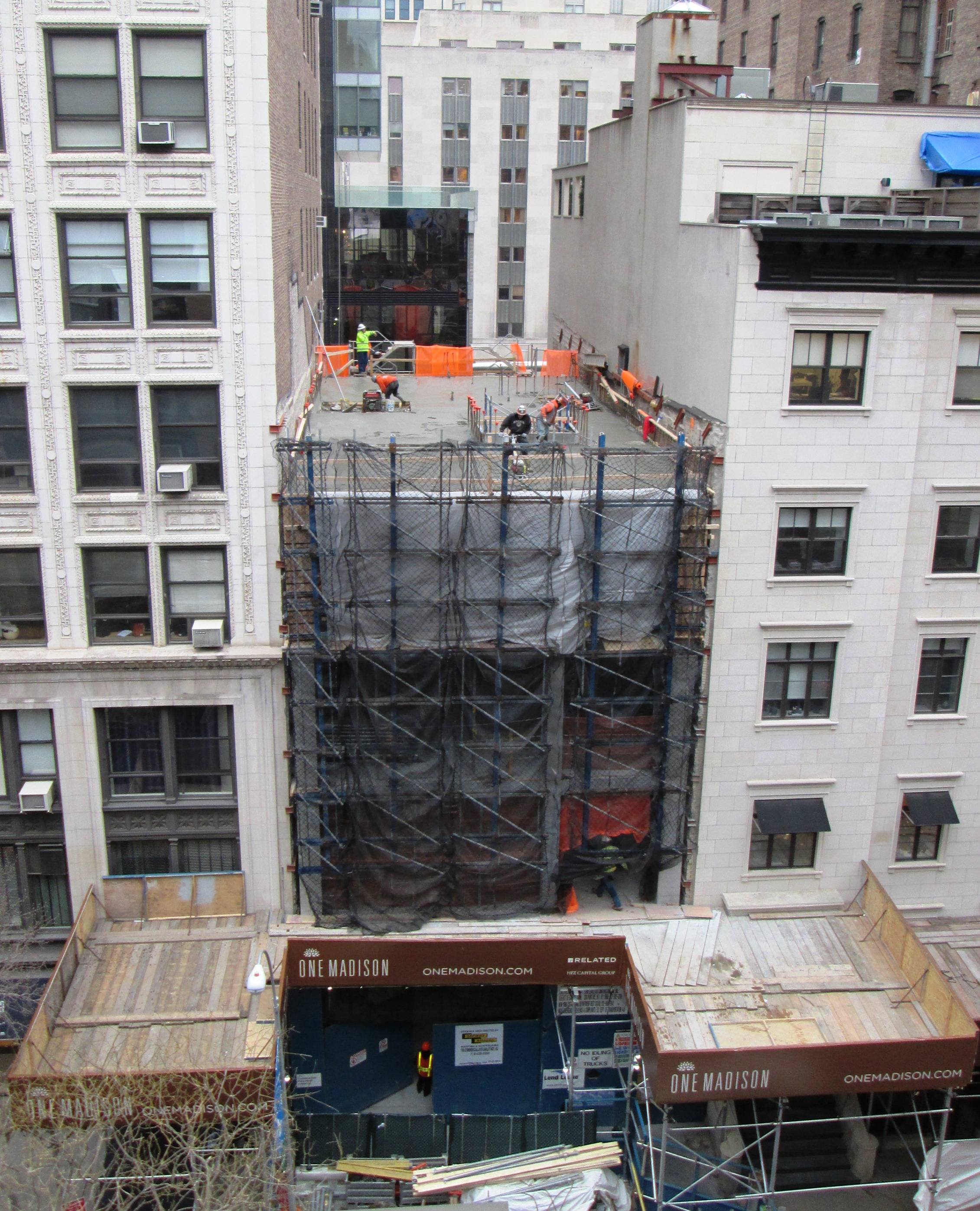 23 East 22nd Street between Broadway and Park Avenue South in the Flatiron District neighborhood of Manhattan, New York City under construction. When completed, it will be the entrance building for One Madison Park, which lies directly behind it at 22 East 23rd Street. (Source: Curbed)